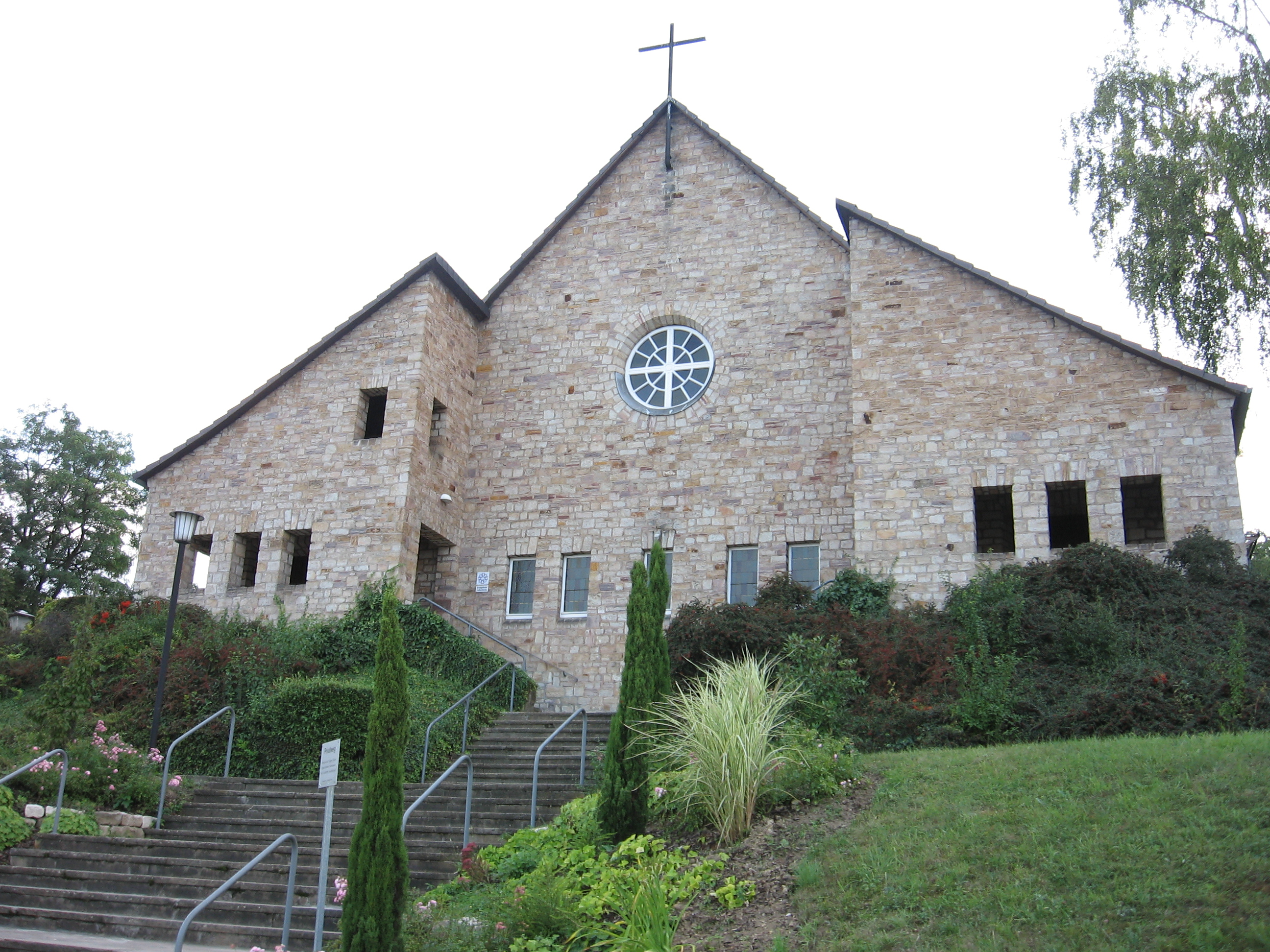 Mainz Lutherkirche